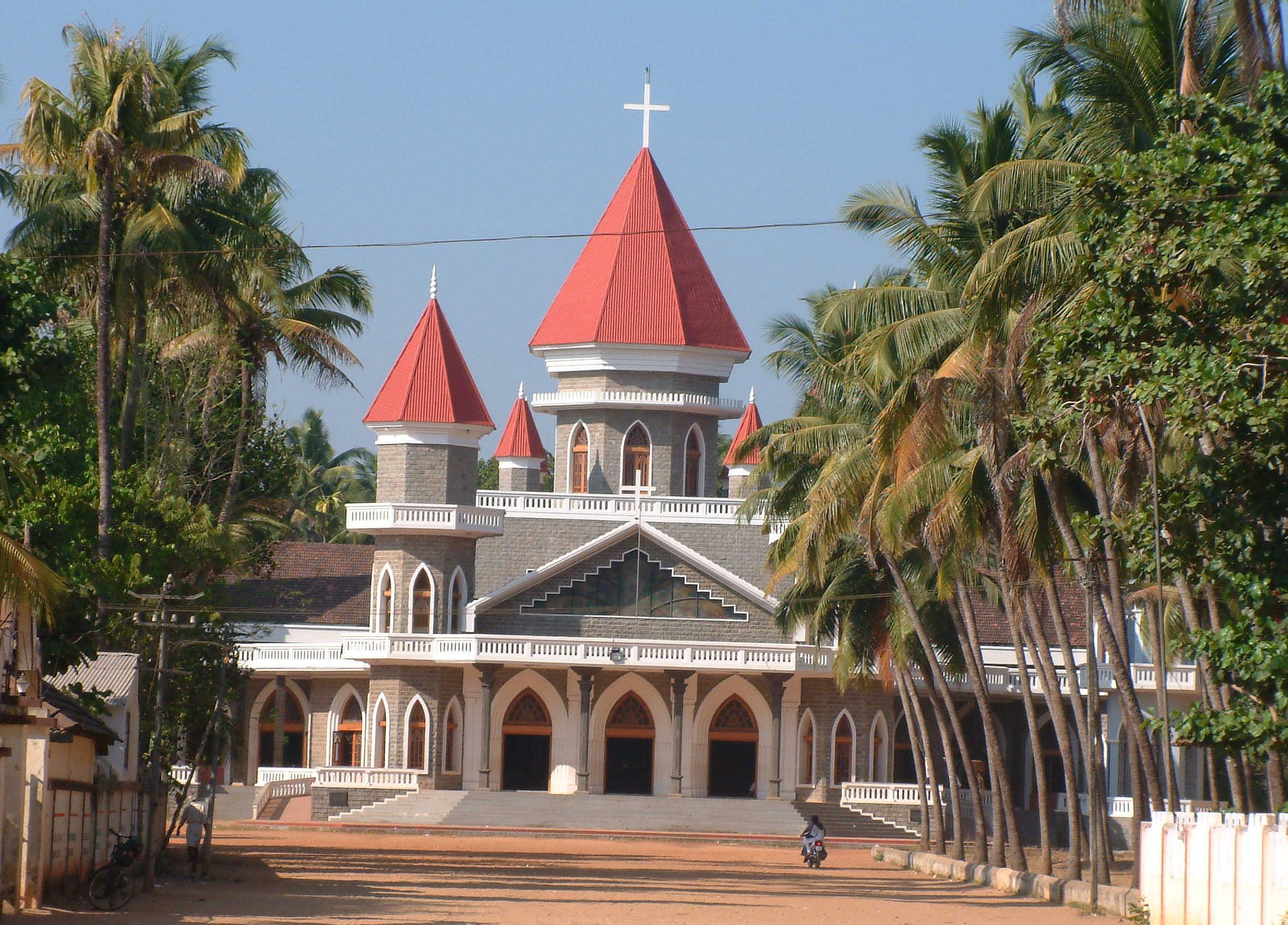 St Micheals Cathedral